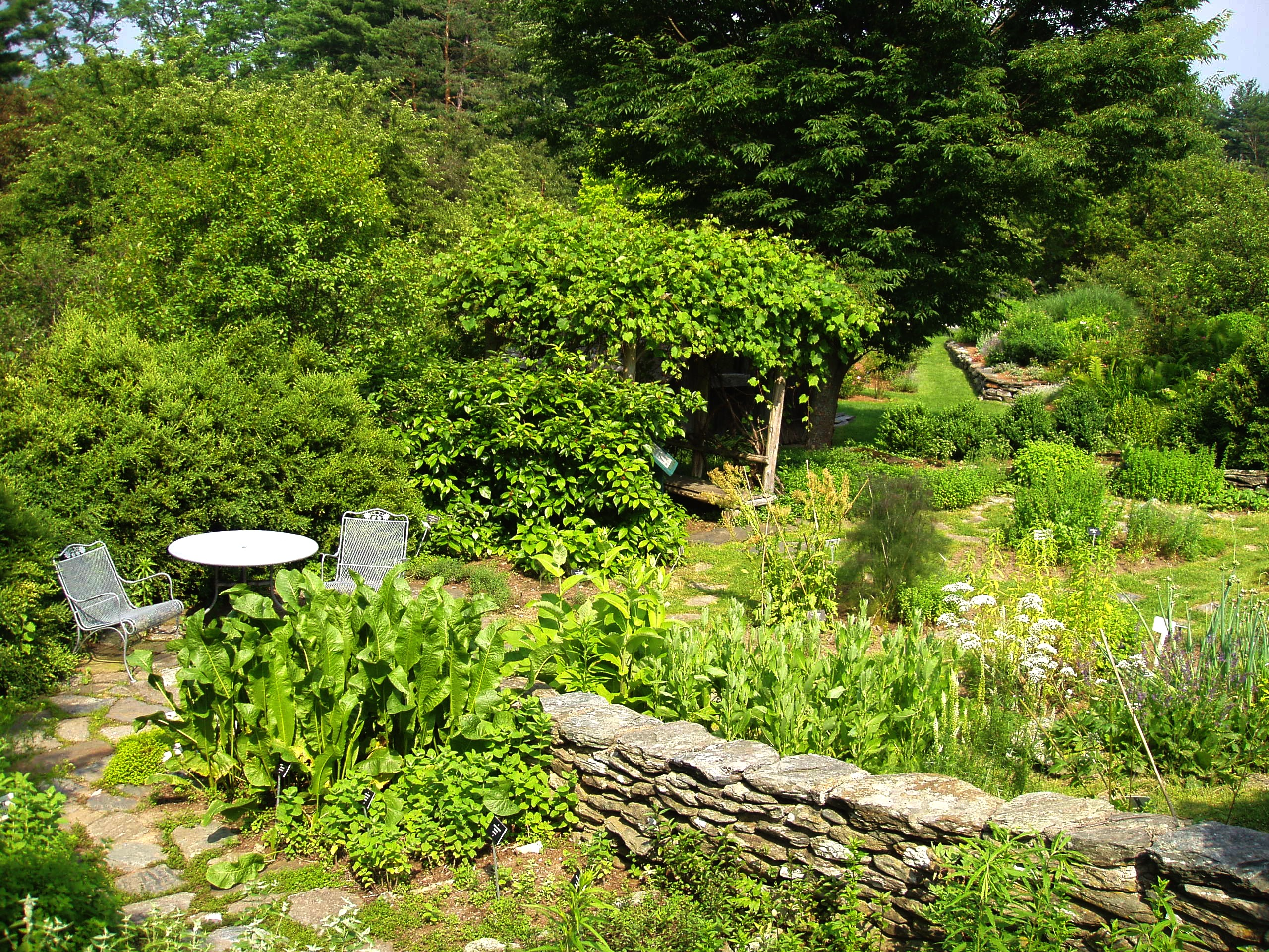 Berkshire Botanical Garden, Stockbridge, Massachusetts. view of the herb garden. I took this photograph, July 2006.